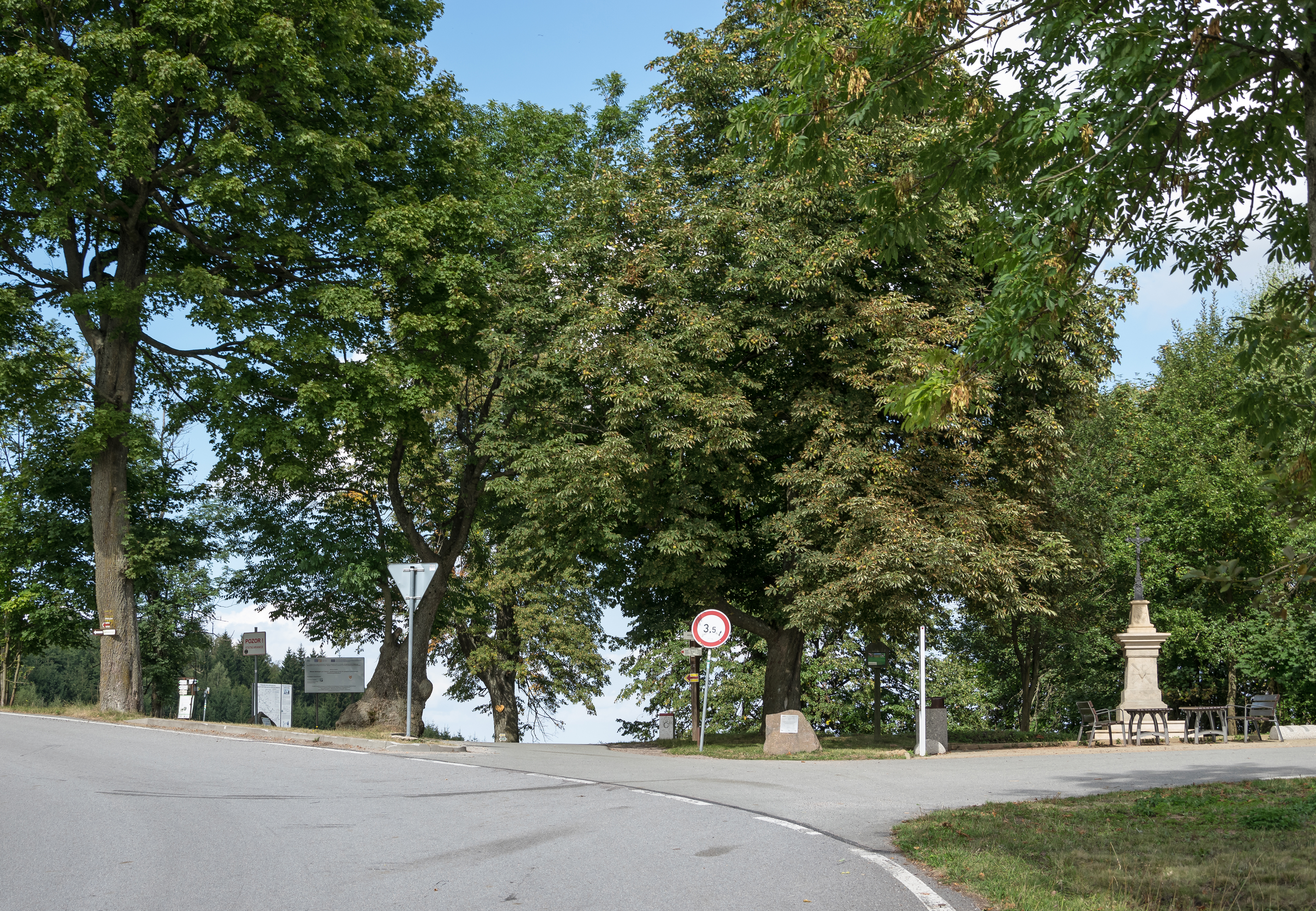 Kamieńczyk-Mladkov Petrovičky border crossing